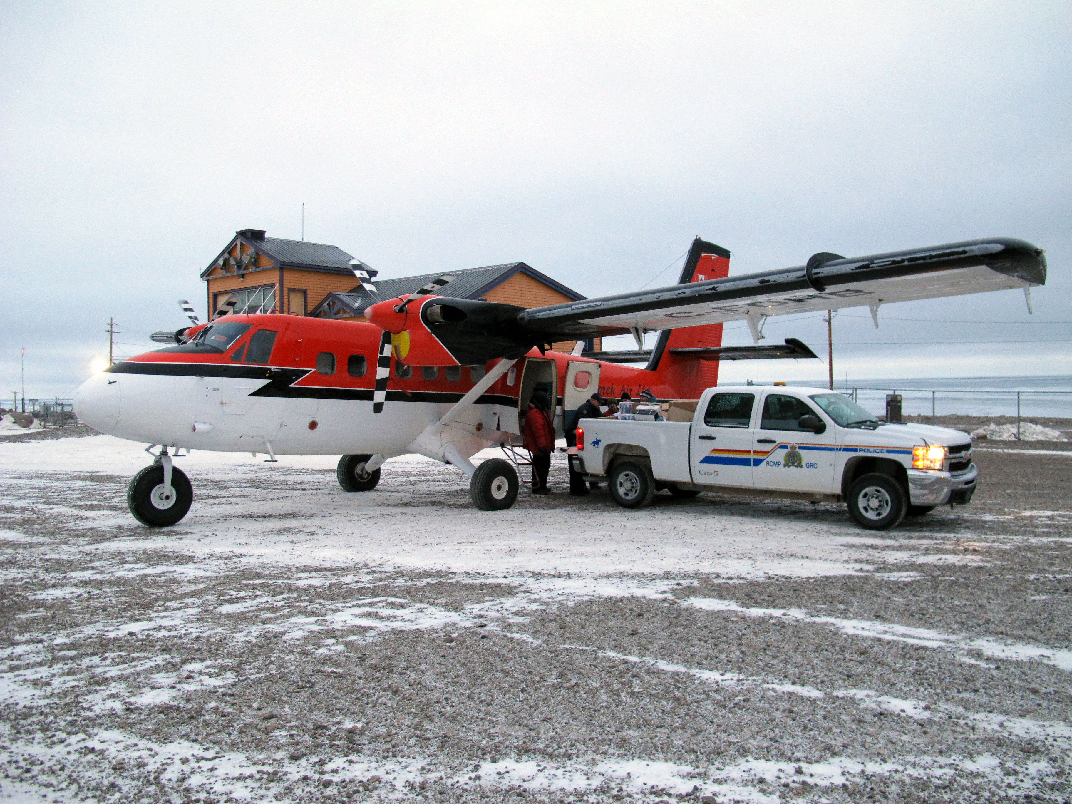 Usually more freight than passengers. There are scheduled flights but only several times a week.